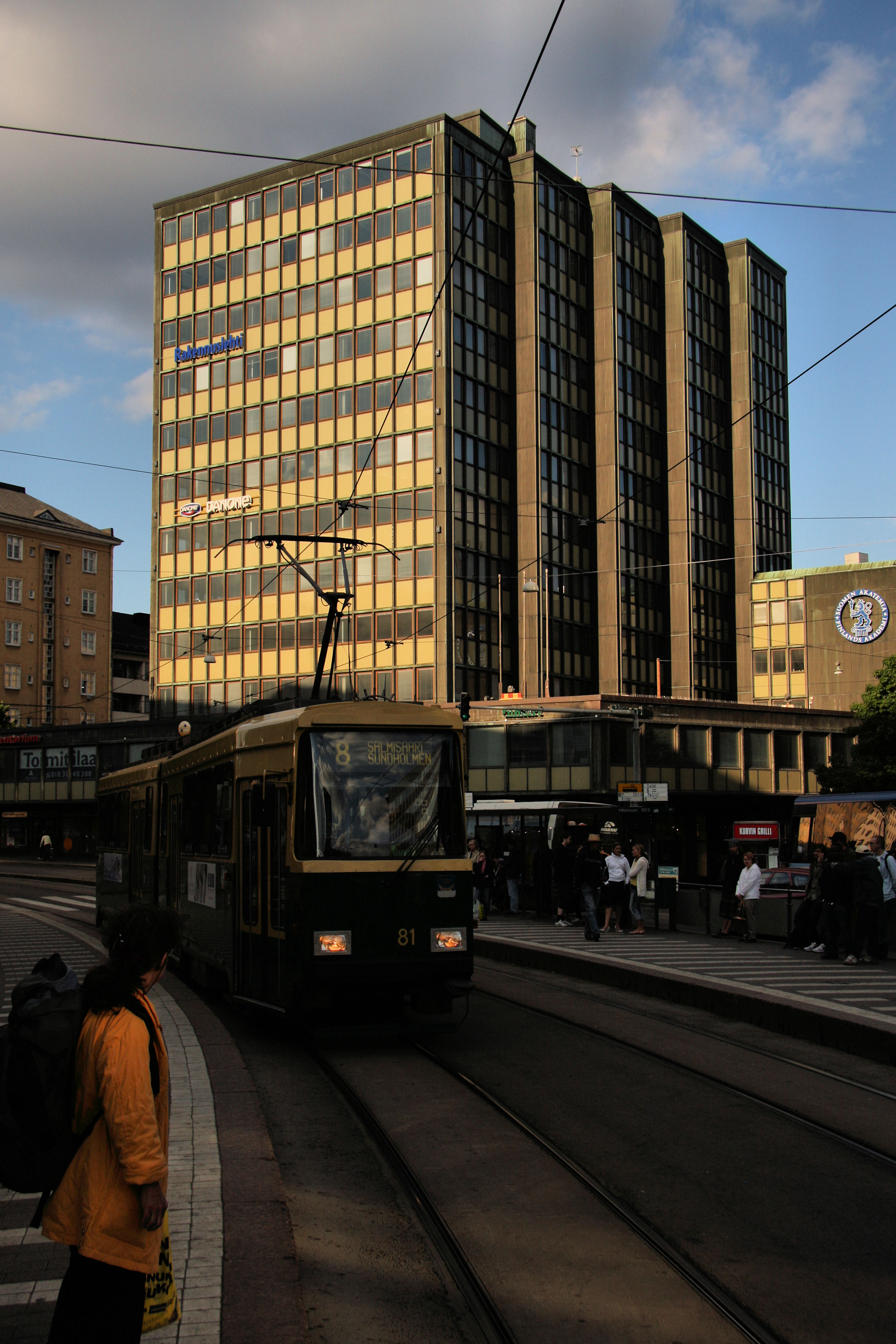 The building of the former Kansa-yhtymä insurance company and a number 8 tram, Sörnäinen, Helsinki, Finland.